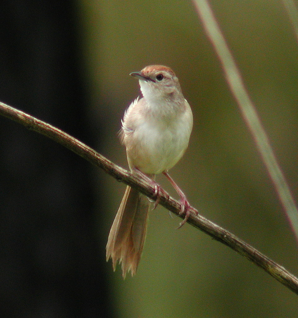 Tawny Grassbird Megalurus timoriensis Samsonvale Cemetery, SE Queensland, Australia